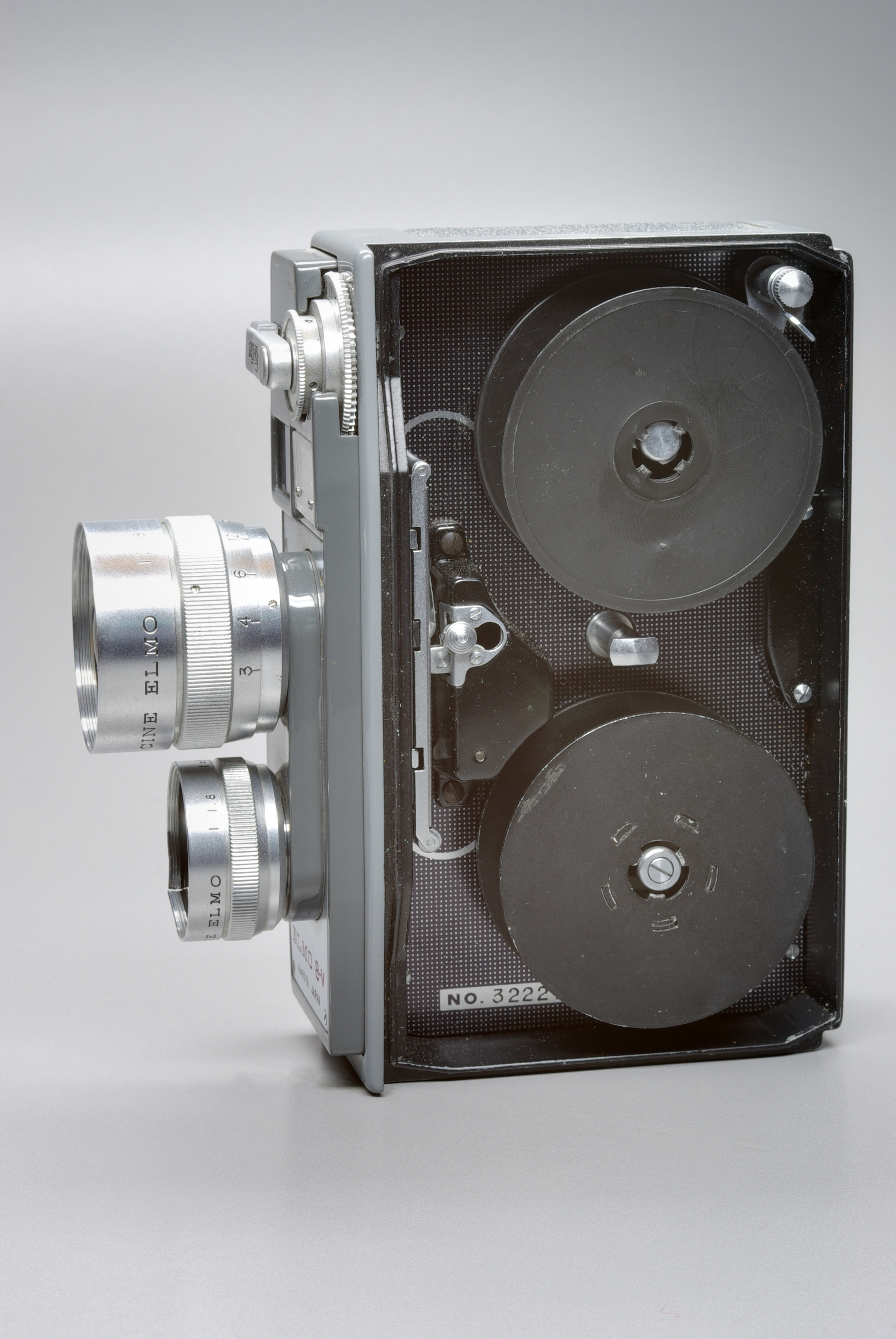 8 mm film camera Elmo 8V